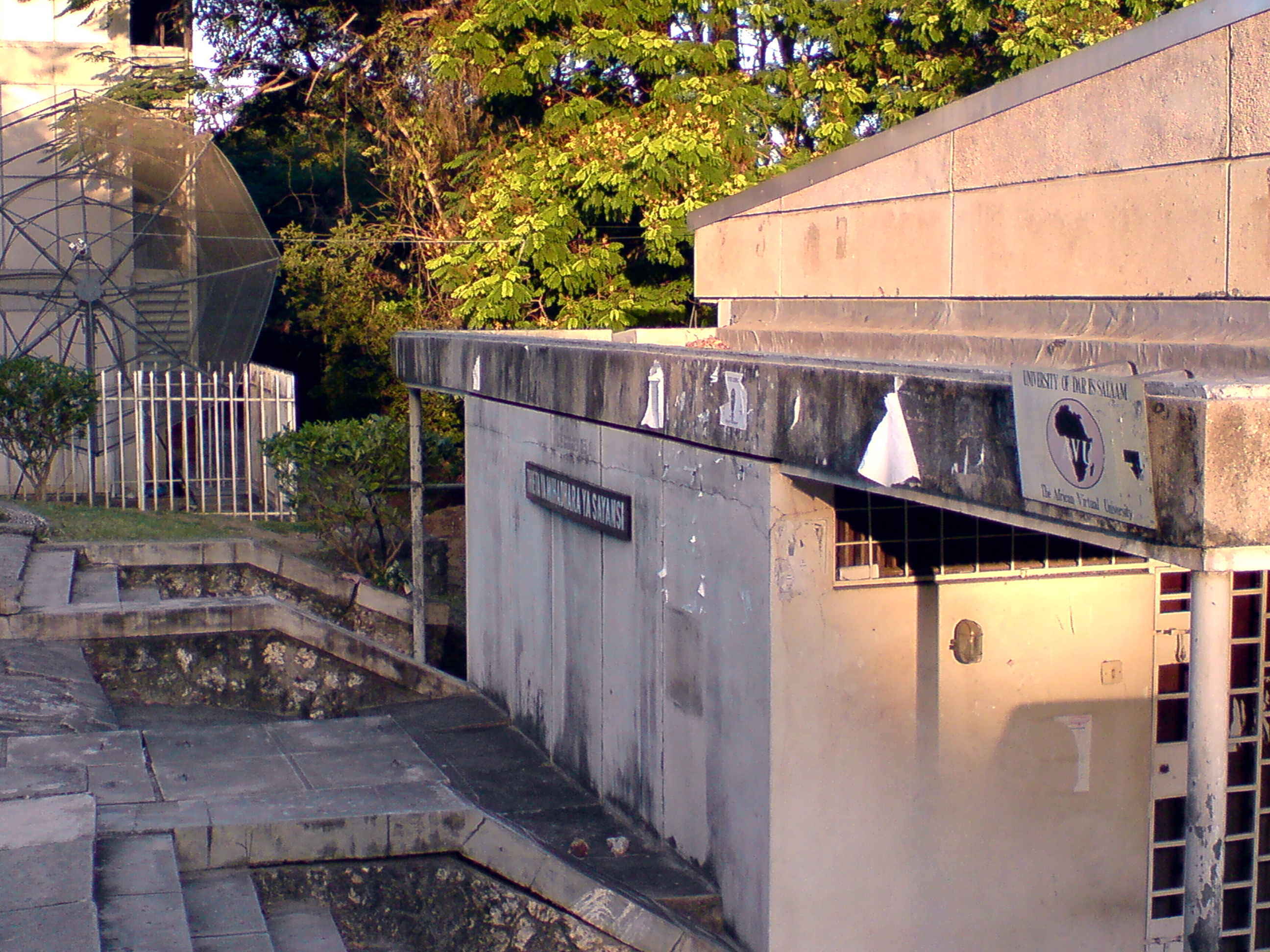 University of Dar es Salaam, Tanzania. Communication satellite dish.